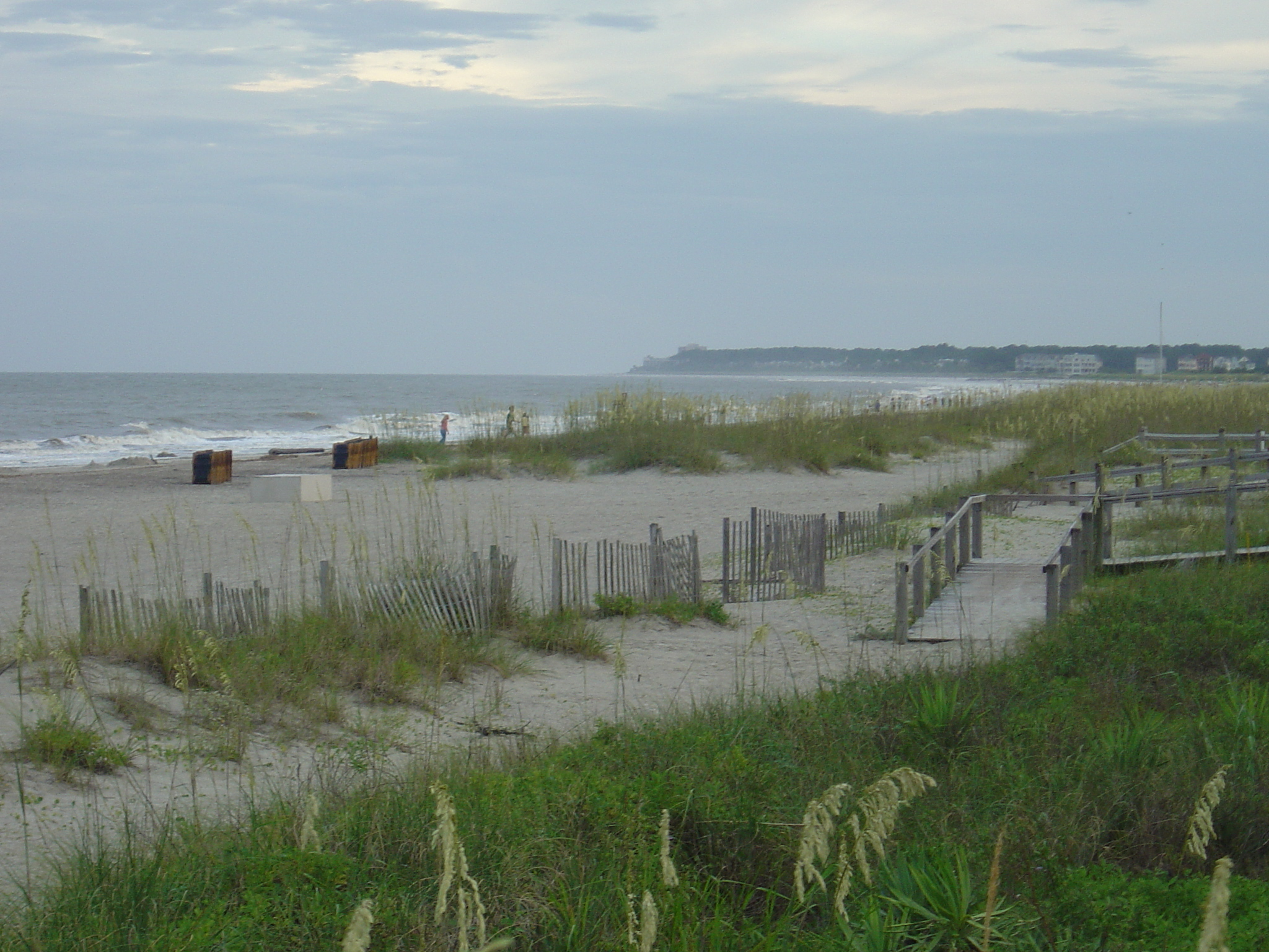 A view of the beach on the Port Royal plantation in Hilton Head Island, South Carolina.